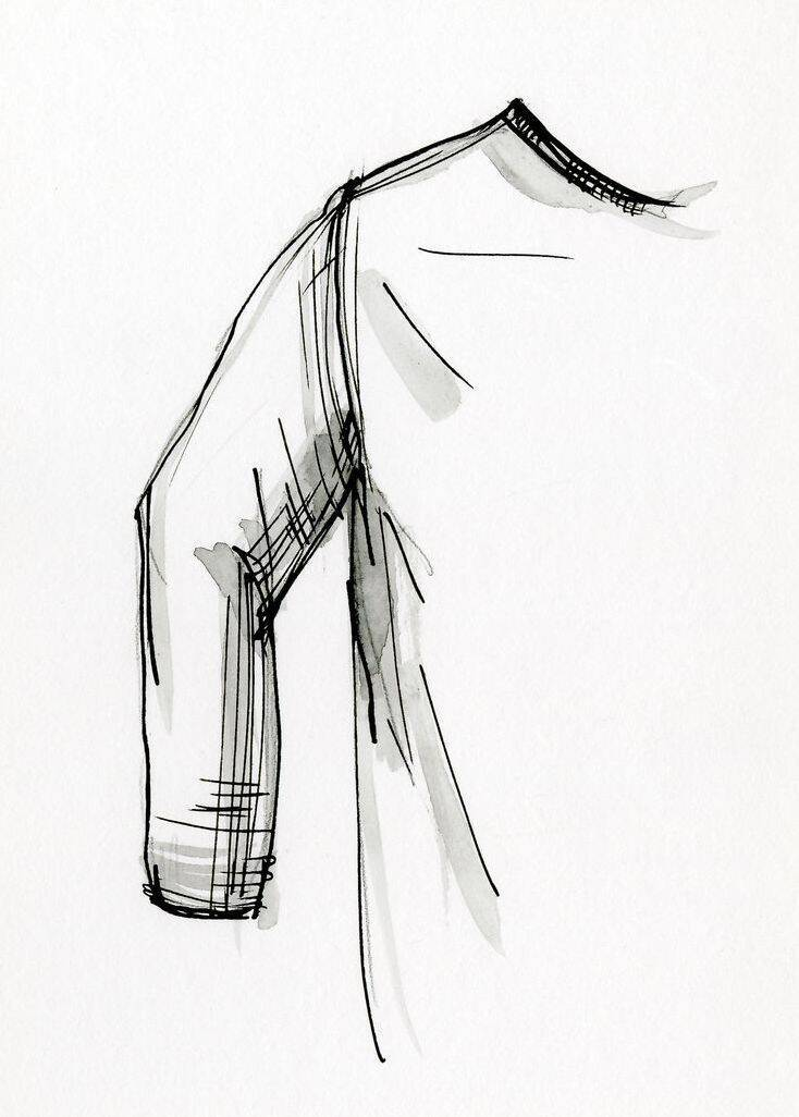 Drawing of the Thesaurus concept : 'long sleeve'